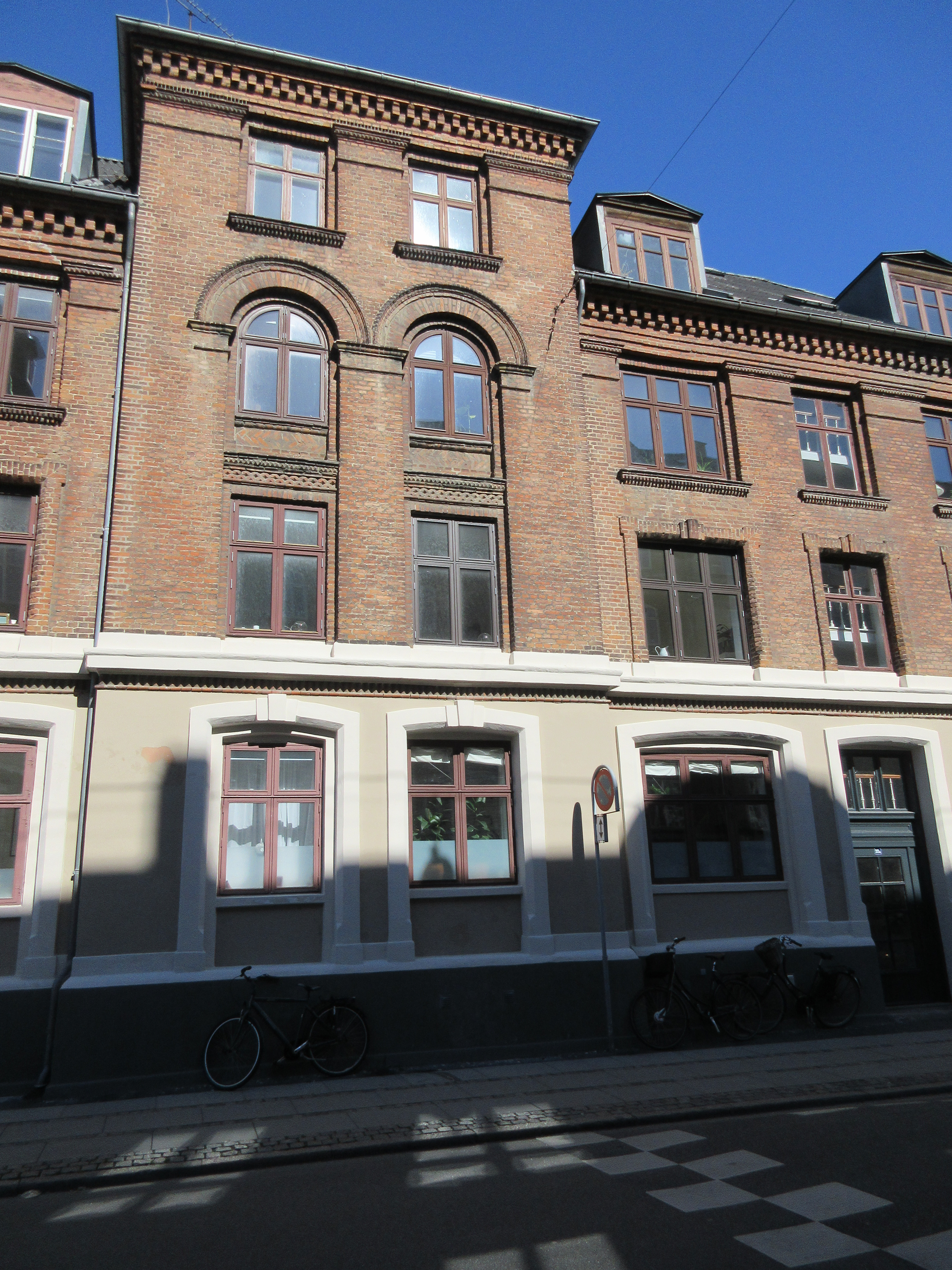 Niels Ebbesens Vej 22 in Frederiksberg, Denmark